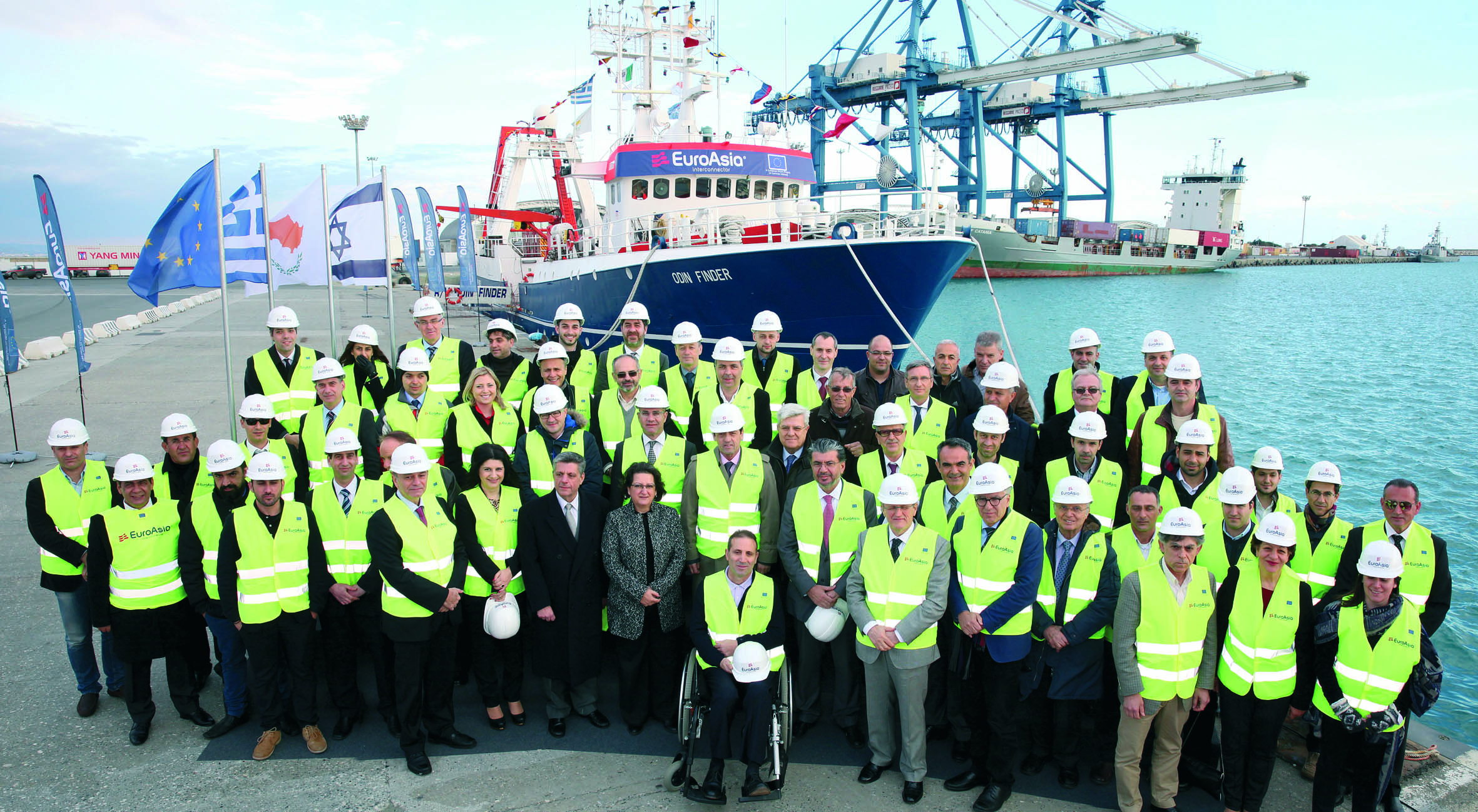 In January 2016, the Italian research ship Odin Finder started a reconnaissance study for the optimum route of EuroAsia Interconnector